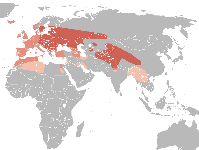 Water Rail (Rallus aquaticus) distribution map